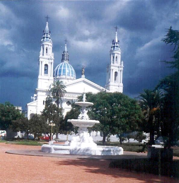 Cathedral of Our Lady of the Rosary. Paraná, Argentina.